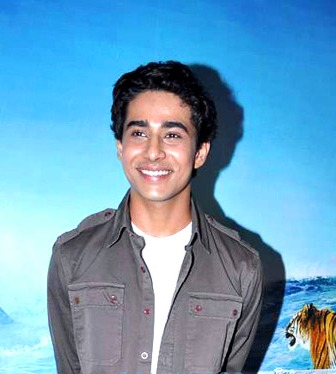 Suraj Sharma at the press conference of Ang Lee's Life Of Pi (2012) at New Delhi.